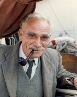 H.W. Tilman, British artilleryman, mountaineer and explorer.